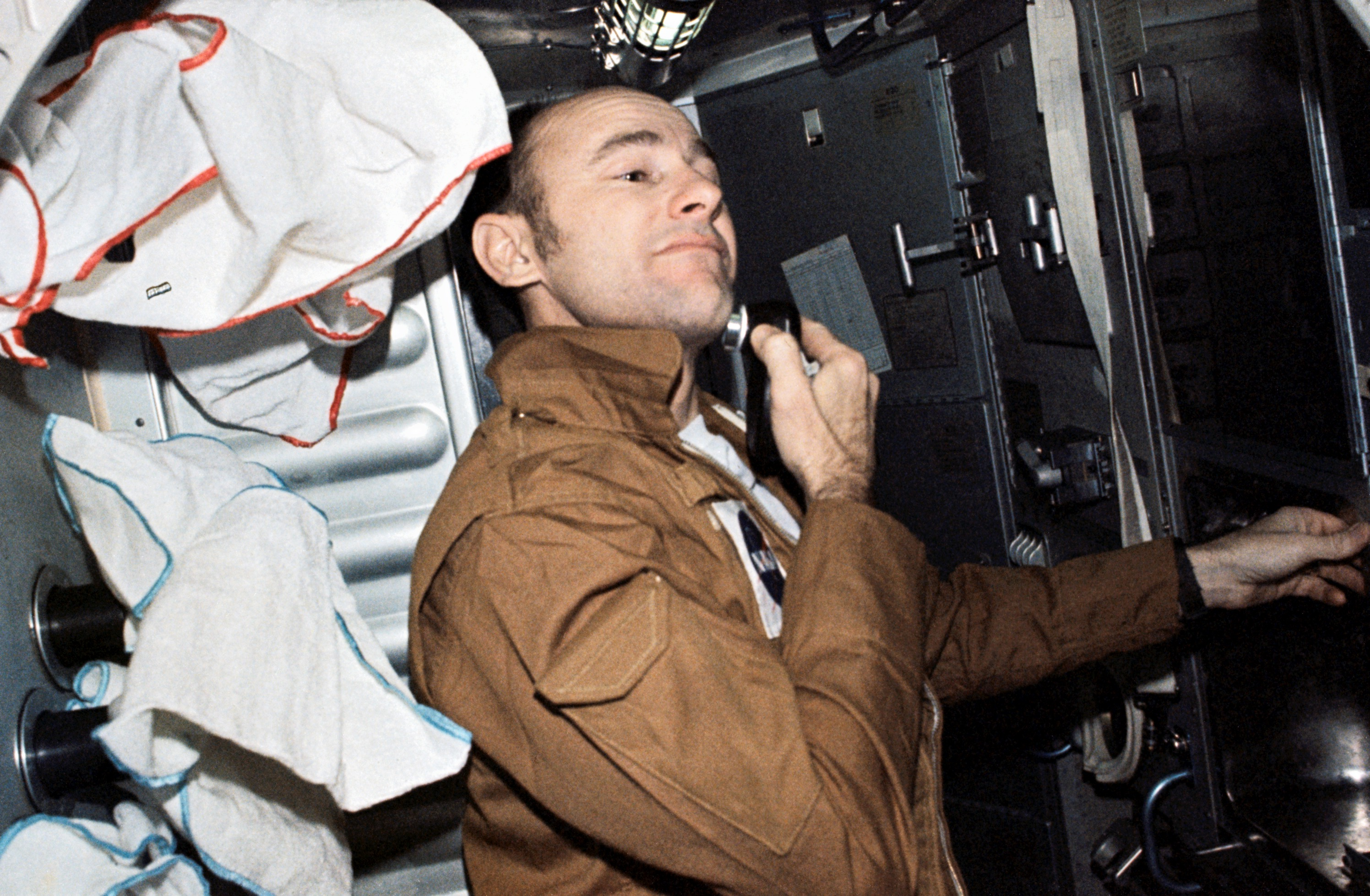 NASA astronaut Alan Bean, commander of the Skylab 3 mission in 1973, shaves in the crew quarters of the Skylab space station's Orbital Workshop (OWS).